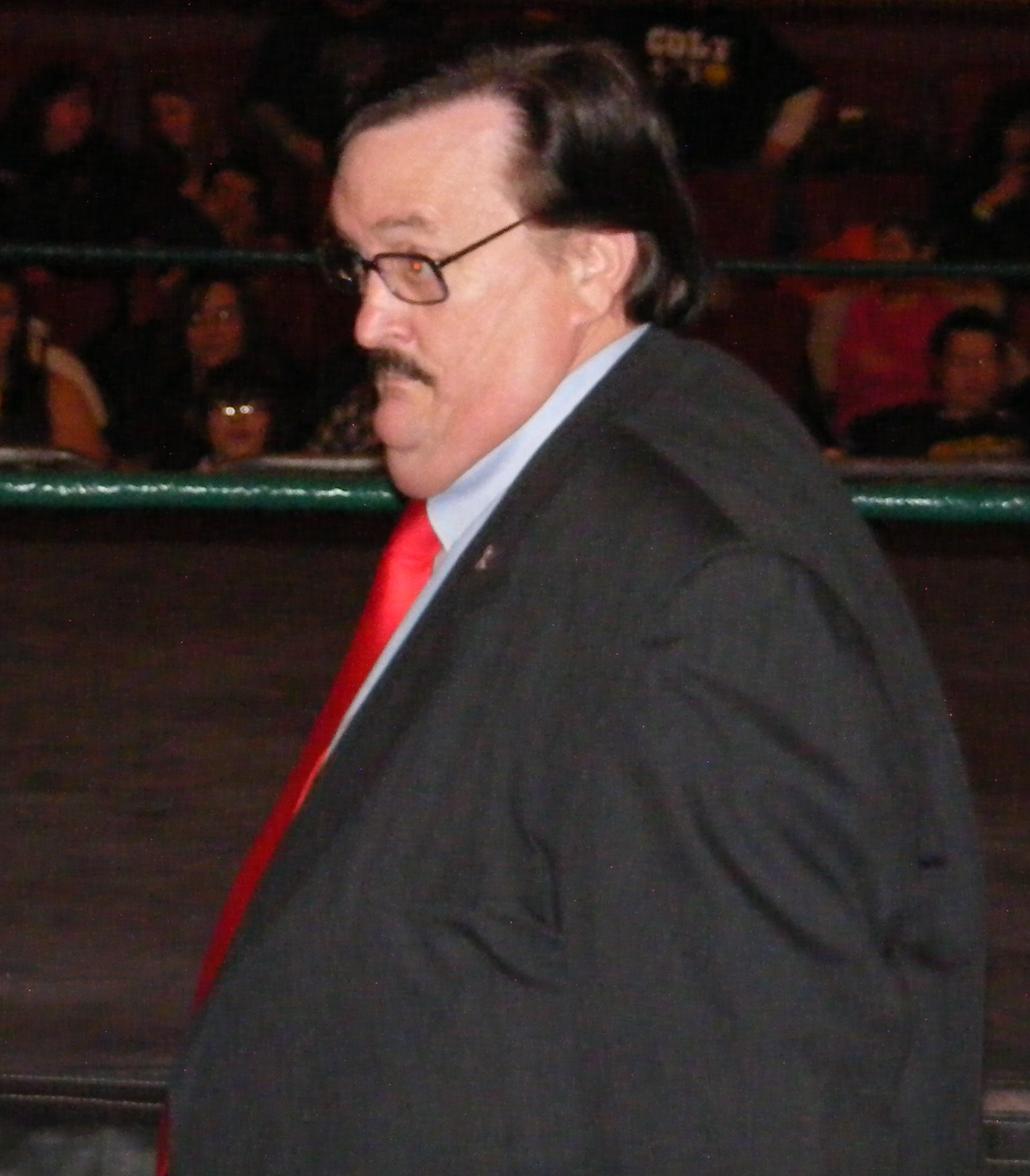 Percy Pringle (Paul Bearer) at an MFW show in Melrose MA on January 8, 2011.